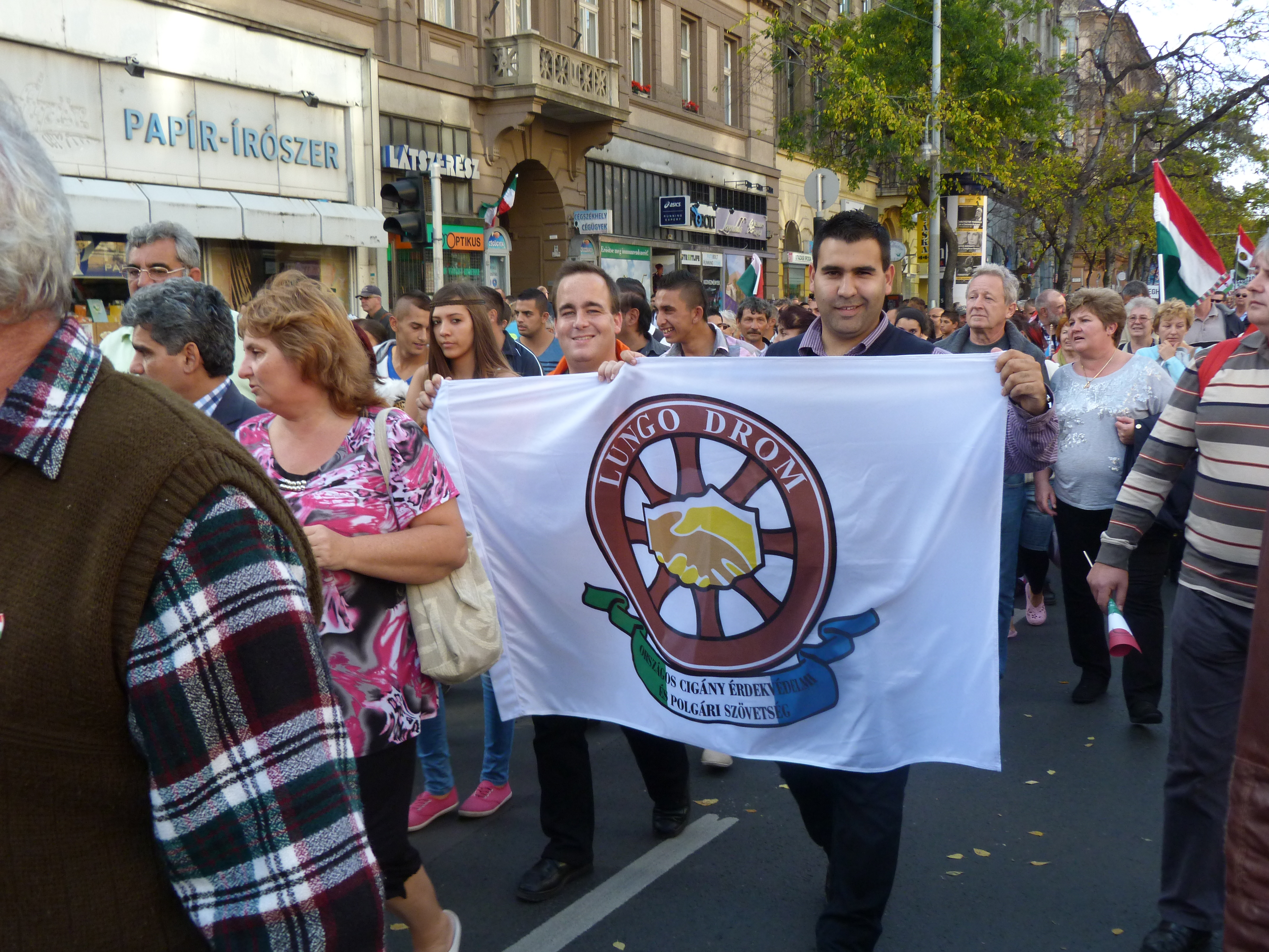 Live on the 23rd of October, 2013. Budapest downtown. The 3rd Peace March for Hungary. Budapest Andrássy út – körút – Oktogon – Andrássy út (Terror Háza) – Körönd – Hősök tere. Pro-goverment demonstration. Sourches: Civil Összefogás Fórum Sajtótájékoztató a 2013. október 23-ai Békemenetről Több százezren a Hősök terén ©© Derzsi Elekes Andor, Budapest, 2013, You are authorised to use these photos and vids under Creative Commons – even for commercial, for profit purposes. Photos must be attributed to Derzsi Elekes Andor. All of the photos and vids in the Metapolisz DVD line are under Creative Commons and can be used even for commercial – for profit – purposes. Recommended Citation Derzsi Elekes Andor: Metapolisz DVD line